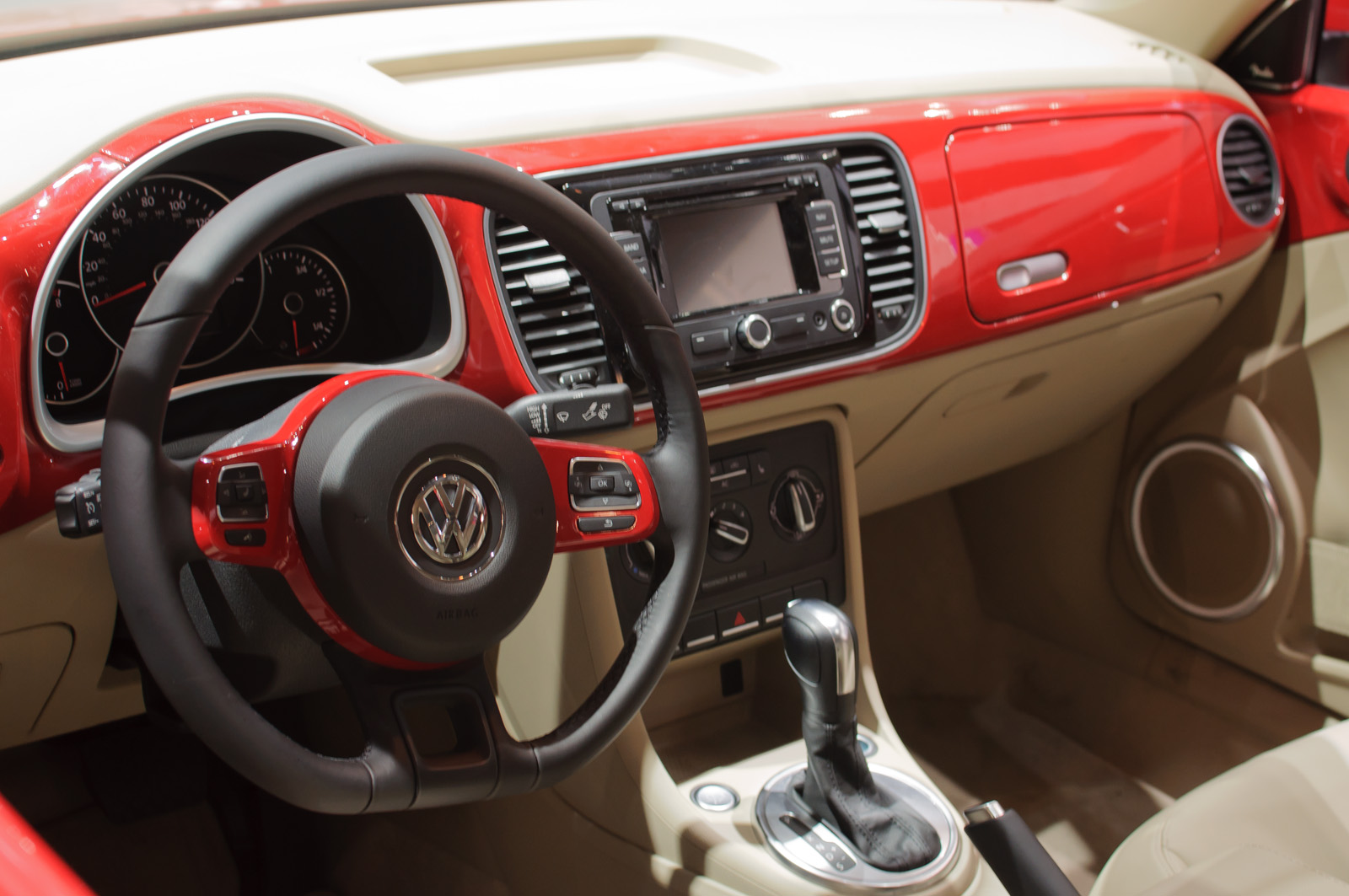 The "New Beetle" had returned to most First World markets in 1998, using the front-wheel-drive Golf platform, and became a huge hit. But it was getting long in the tooth after a decade with only minimal changes. For 2012, the Beetle gets a badly needed redesign. The redesign loses the "cute" feel of the previous model, and gains a lot more retro character in return. The previous Beetle was shunned by men because it was too much of a "chick car," and this Beetle doesn't have that problem. The interior, with body-colored dashboard complete with a small cubby hole, is definitely very retro. The gauges are much more legible as well. I like this far more than the interior of the previous Beetle, though I prefer the "chick car" exterior of the previous model. Of course, the presence of leather, pushbutton start, cruise control, navigation system, and automatic transmission mean that this is a far cry from the bare-bones utilitarian Beetles of the hippie revolution era. At least the interior is not cheap, unlike the interiors of certain other modern-day Volkswagens (like the newest Jetta). Seen at Los Angeles International Auto Show, 2011.